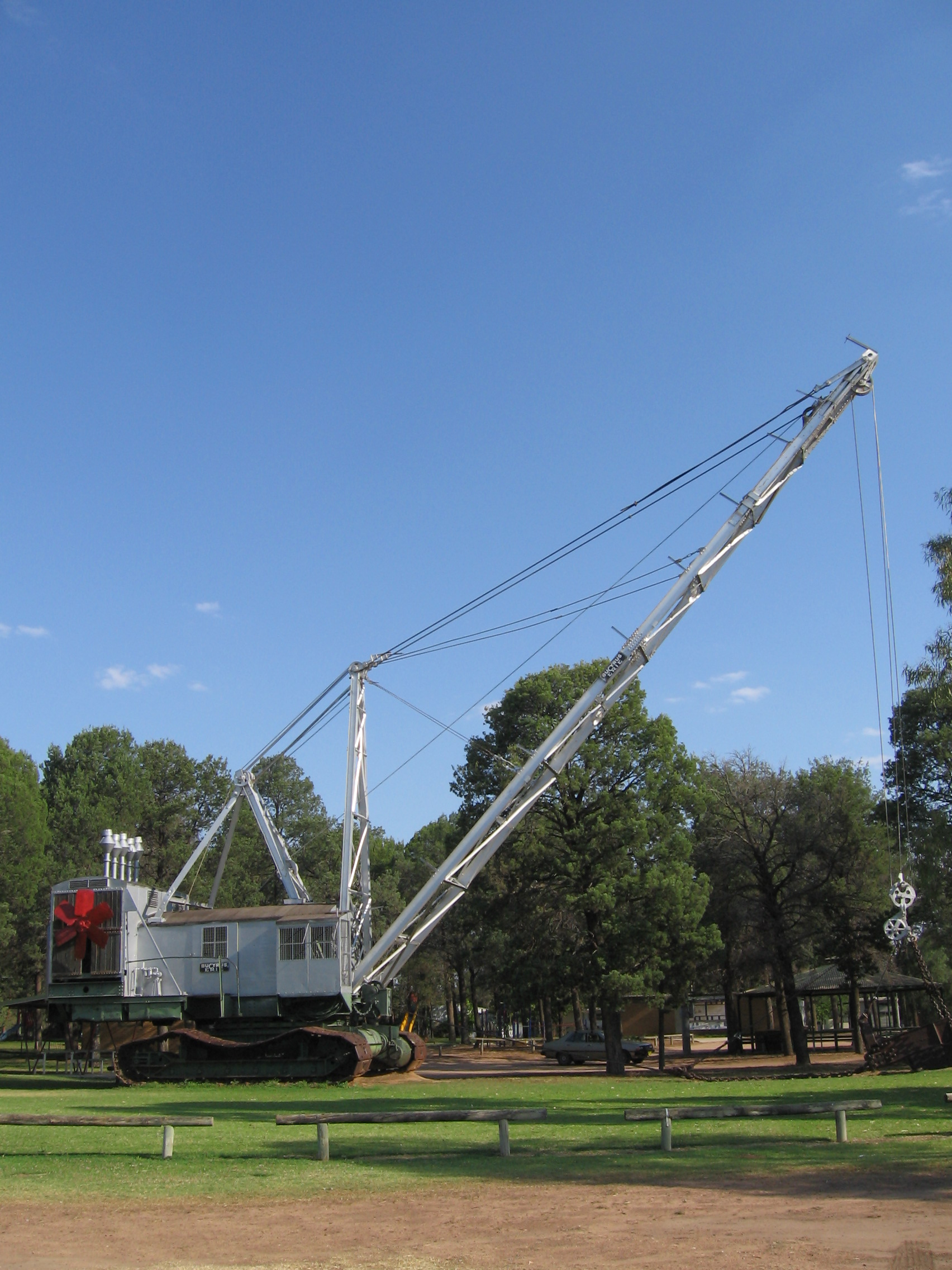 Dragline at Coleambally, New South Wales